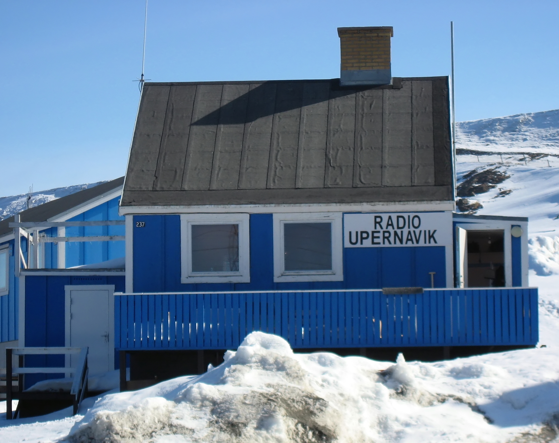 Radio Upernavik. The local radio station in Upernavik, Greenland. The broadcasts can be received from most of the settlements in the enourmous Upernavik district.